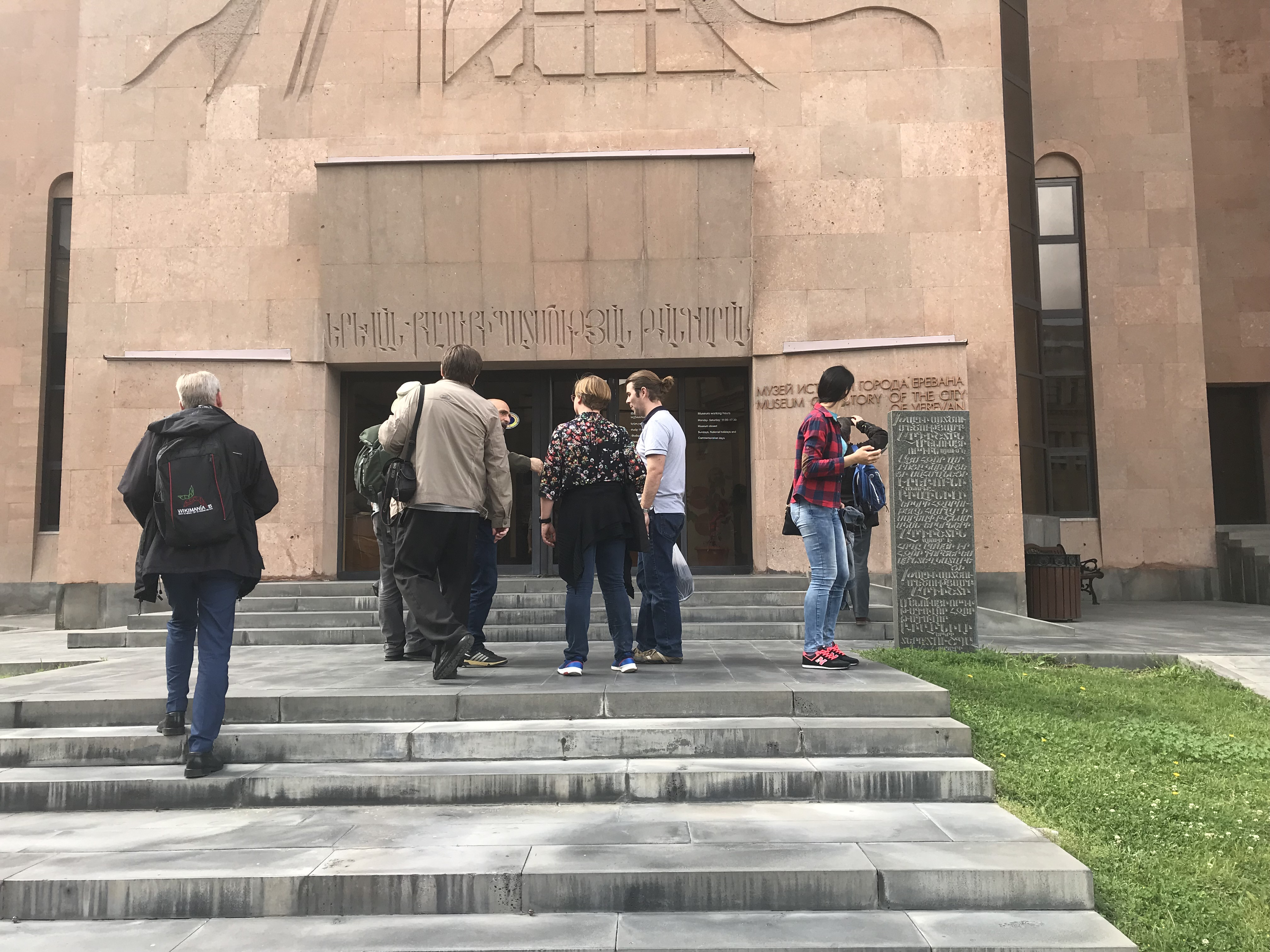 Yerevan History Museum.